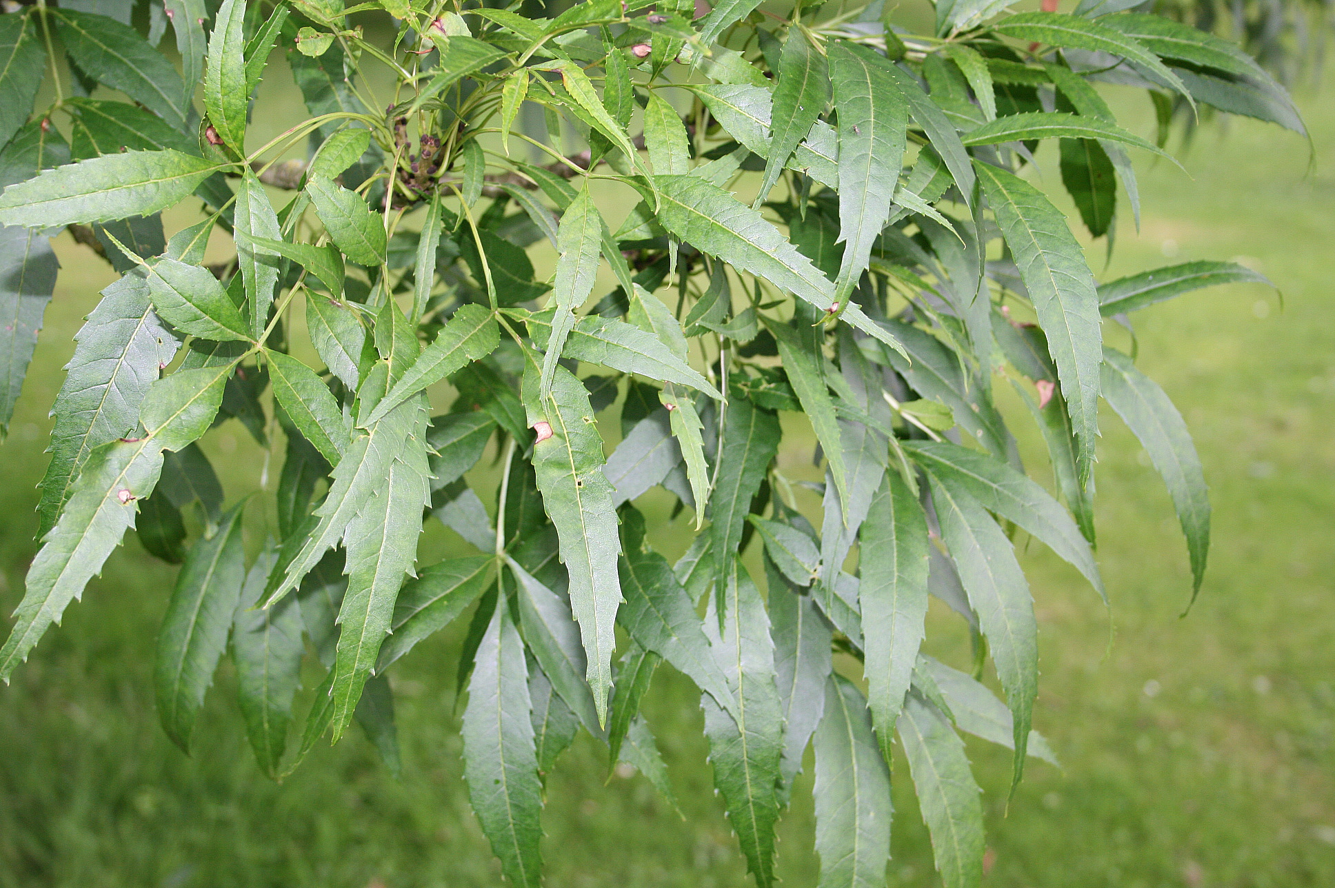 Syrian Ash - Fraxinus angustifolia subsp. syriaca (Boiss.) Yalt., syn. Fraxinus syriaca Boiss. Precice location: National Botanic Garden of Belgium - Meise (Belgium). Walon: Frin.ne di Sirîye - Fraxinus angustifolia subsp. syriaca (Boiss.) Yalt., syn. Fraxinus syriaca Boiss. Place rècta: Jardin botanike national di Bèljike - Meise (Bèljike).